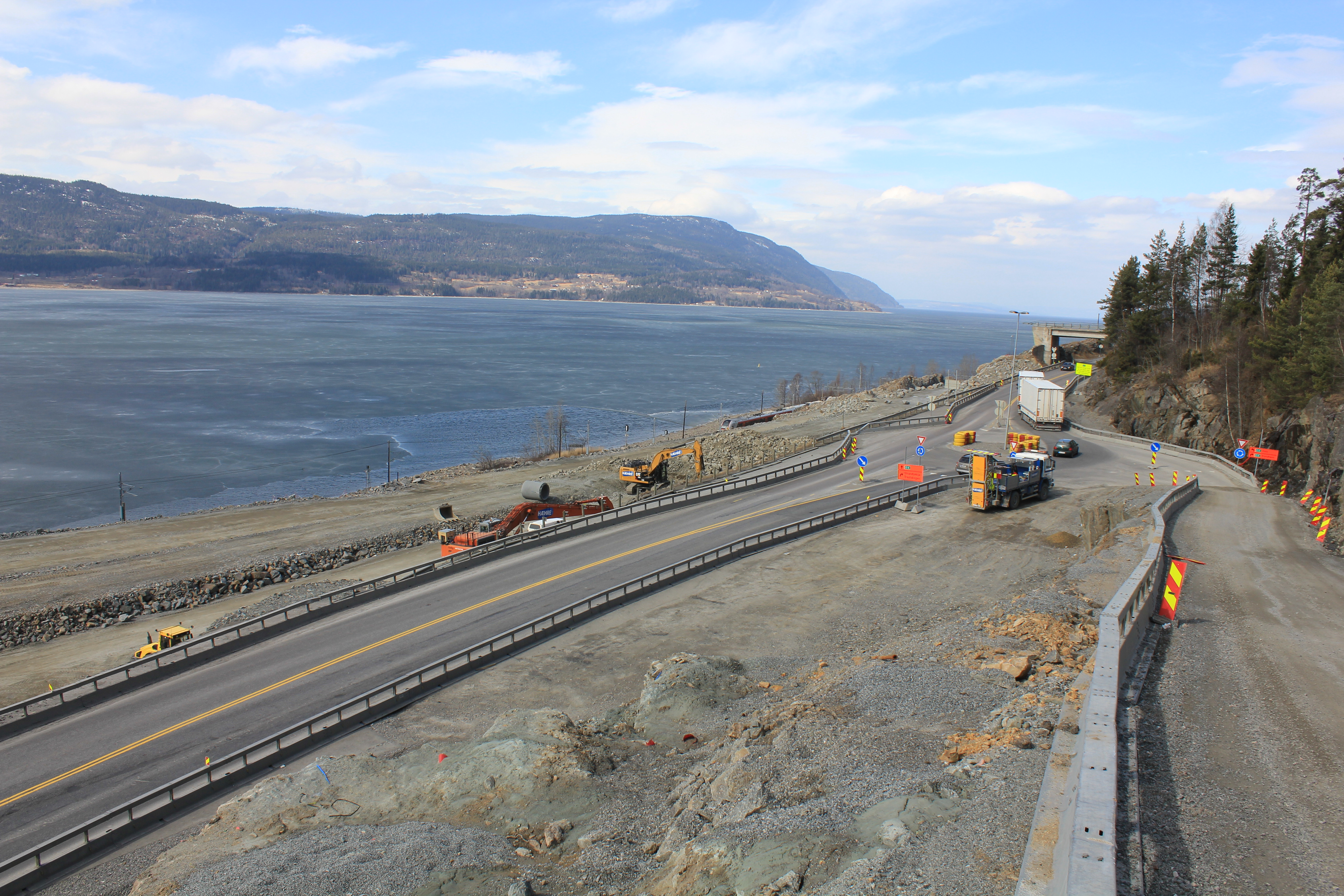 Highway construction at E6 by Lake Mjøsa, Norway.